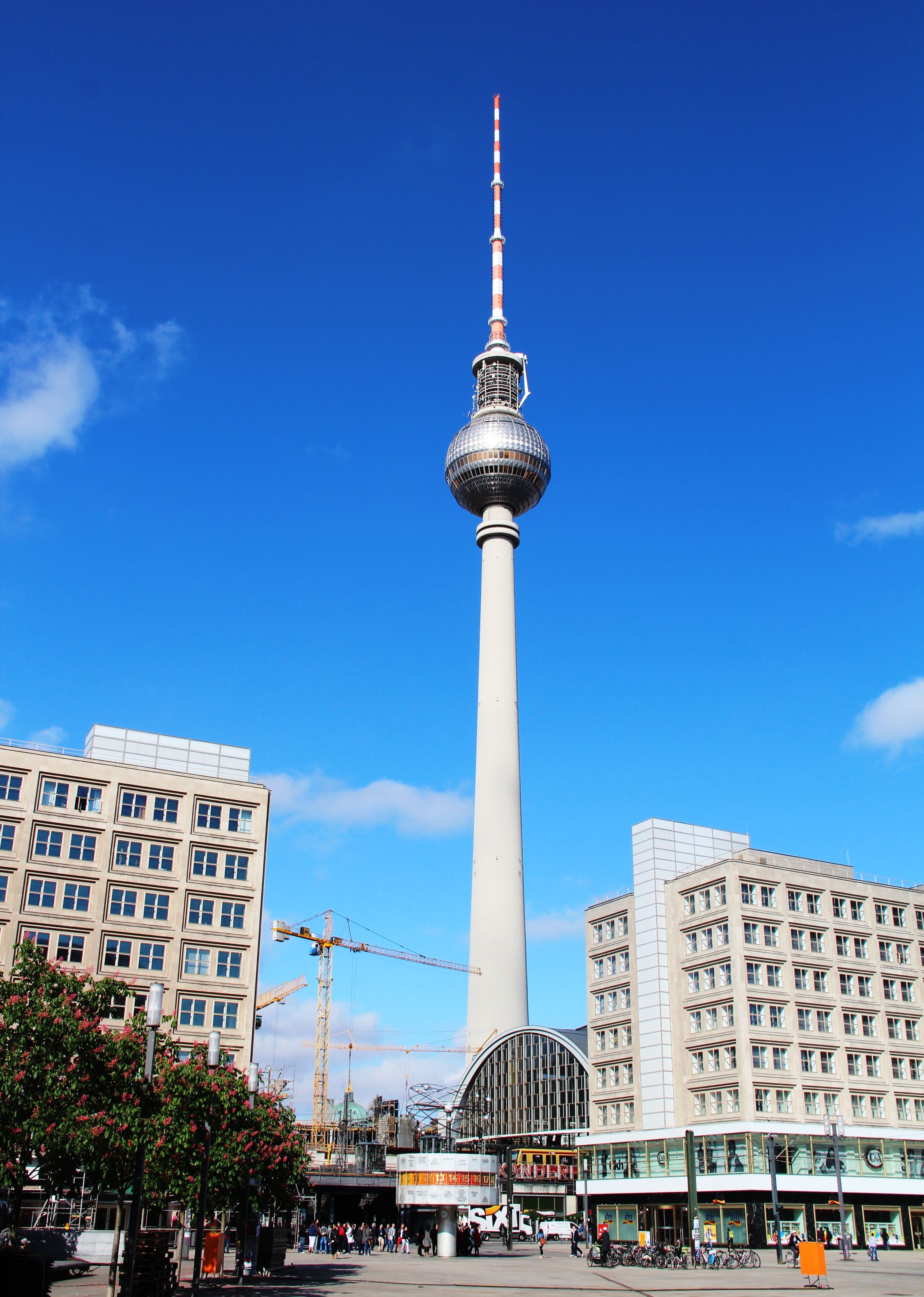 Berlin TV-Tower at Alexanderplatz 2013